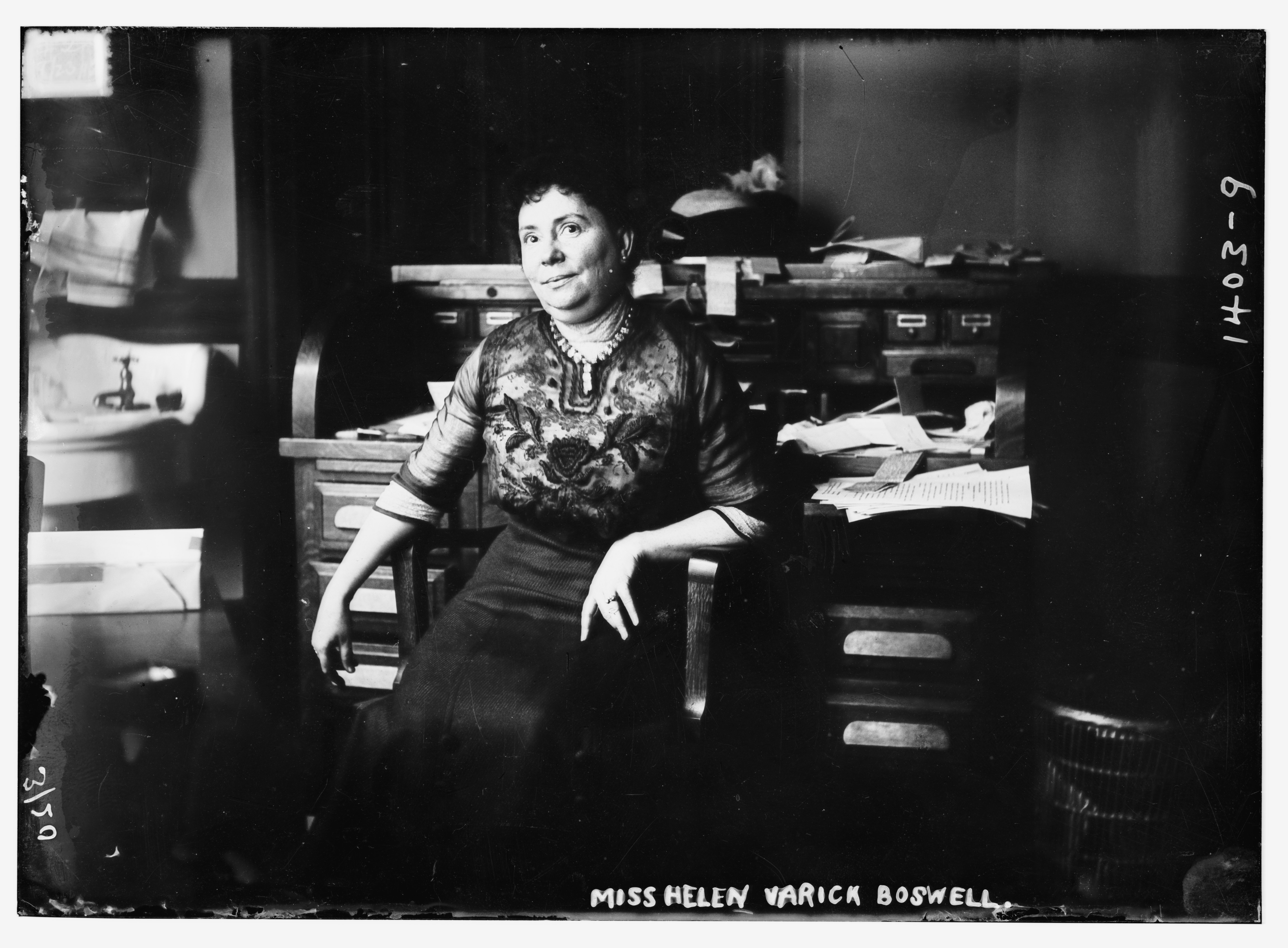 Title: Miss Helen Varick Boswell Abstract/medium: 1 negative : glass ; 5 x 7 in. or smaller.